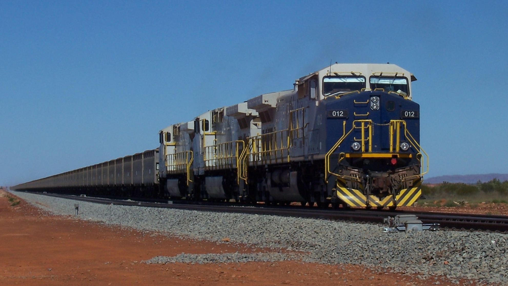 Fortescue Metals Group - GE CW44 DASH 9 locomotives, Unit 012 leading, on a loaded 220 wagon, 2.6km long, 31,784 ton, iron ore train. Location Pilbara region, Western Australia. May 2008.